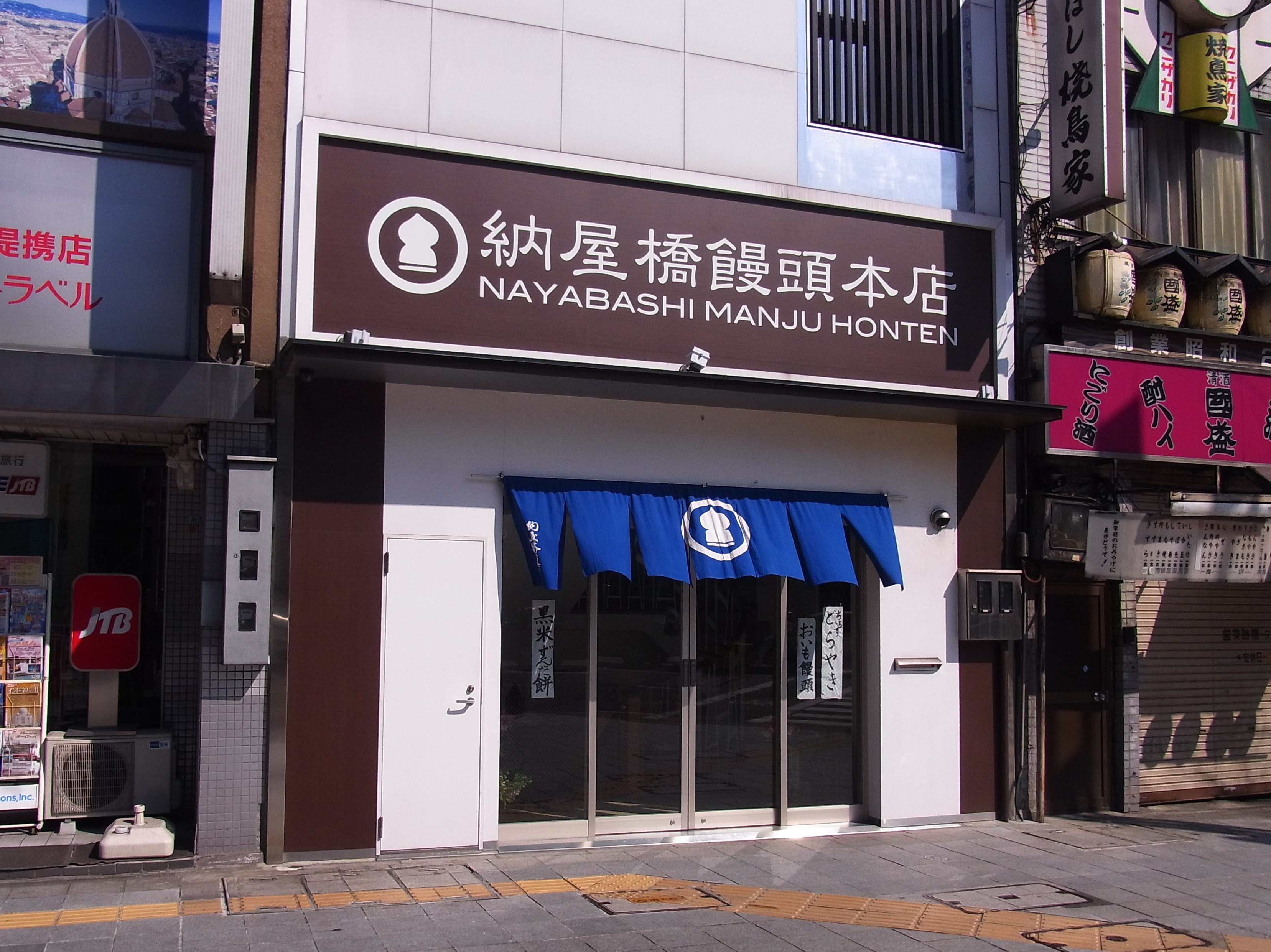 Nayabashi-manju Honten in Nakamura-ku Ward, Nagoya City.